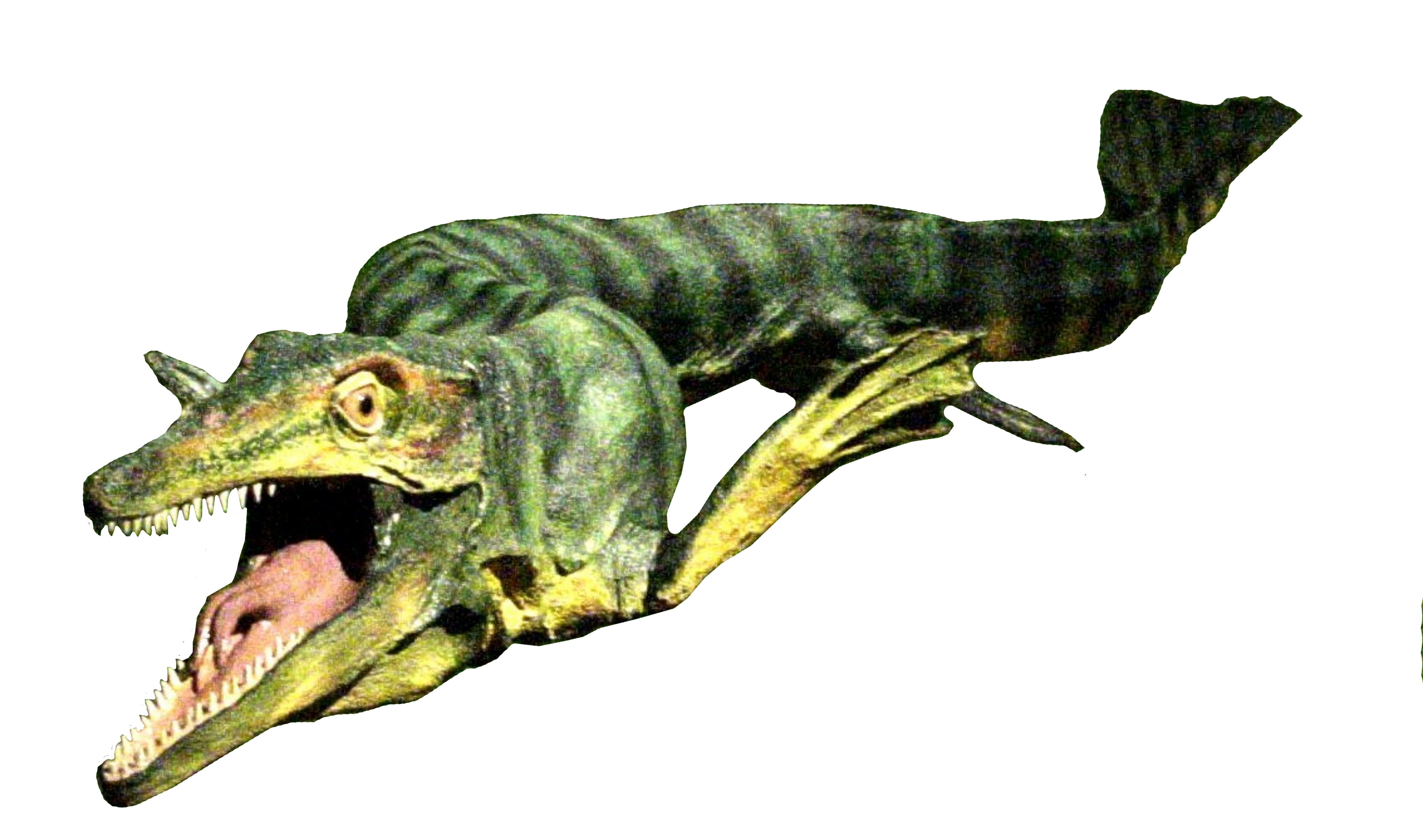 Clidastes liodontus three-dimensional life-model in the Rocky Mountain Dinosaur Resource Center in Woodland Park, Colorado